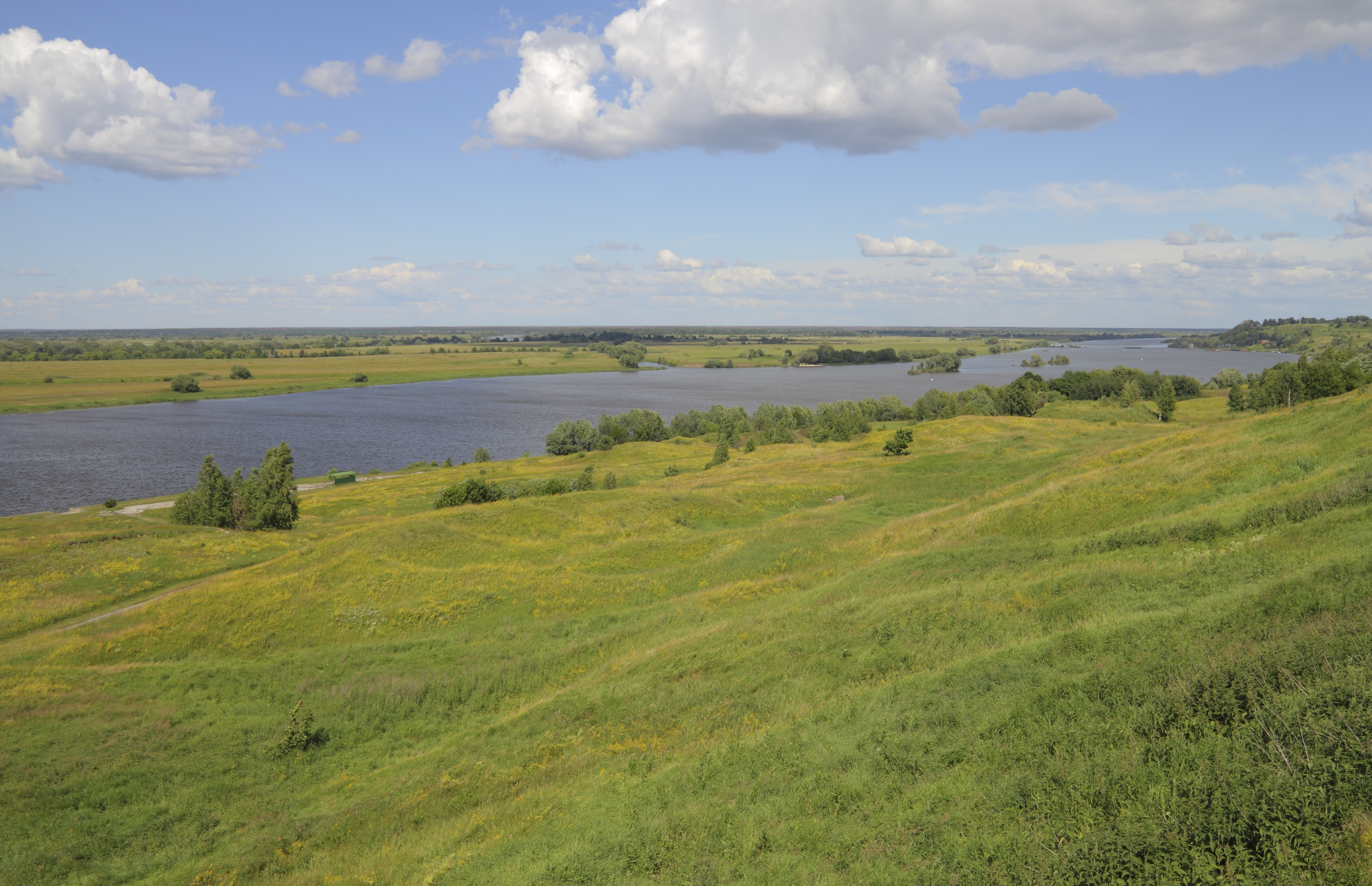 View to the Oka River from Konstantinovo village, Ryazan Oblast, Russia